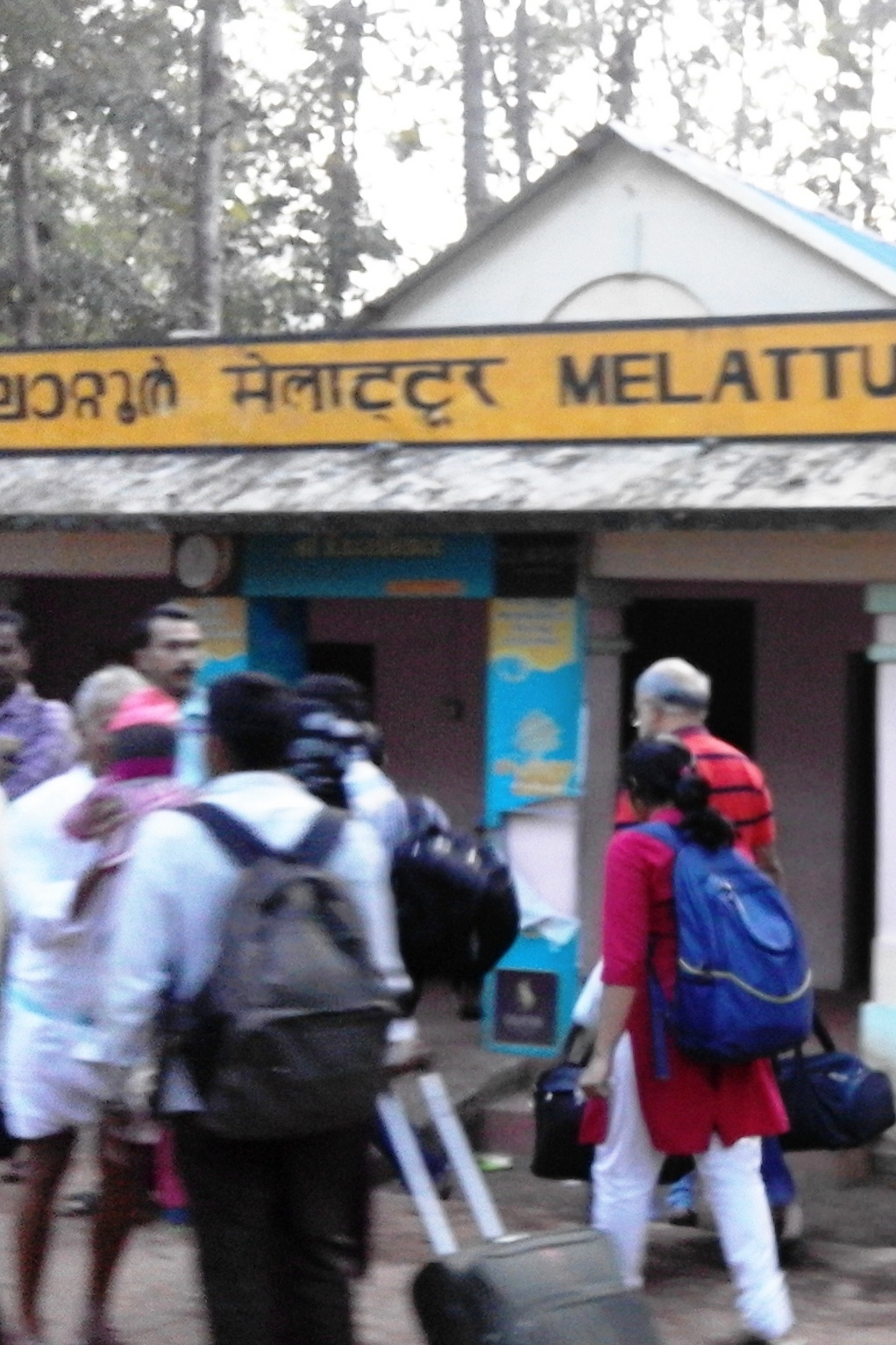 Melattur, Perinthalmanna, Kerala, India